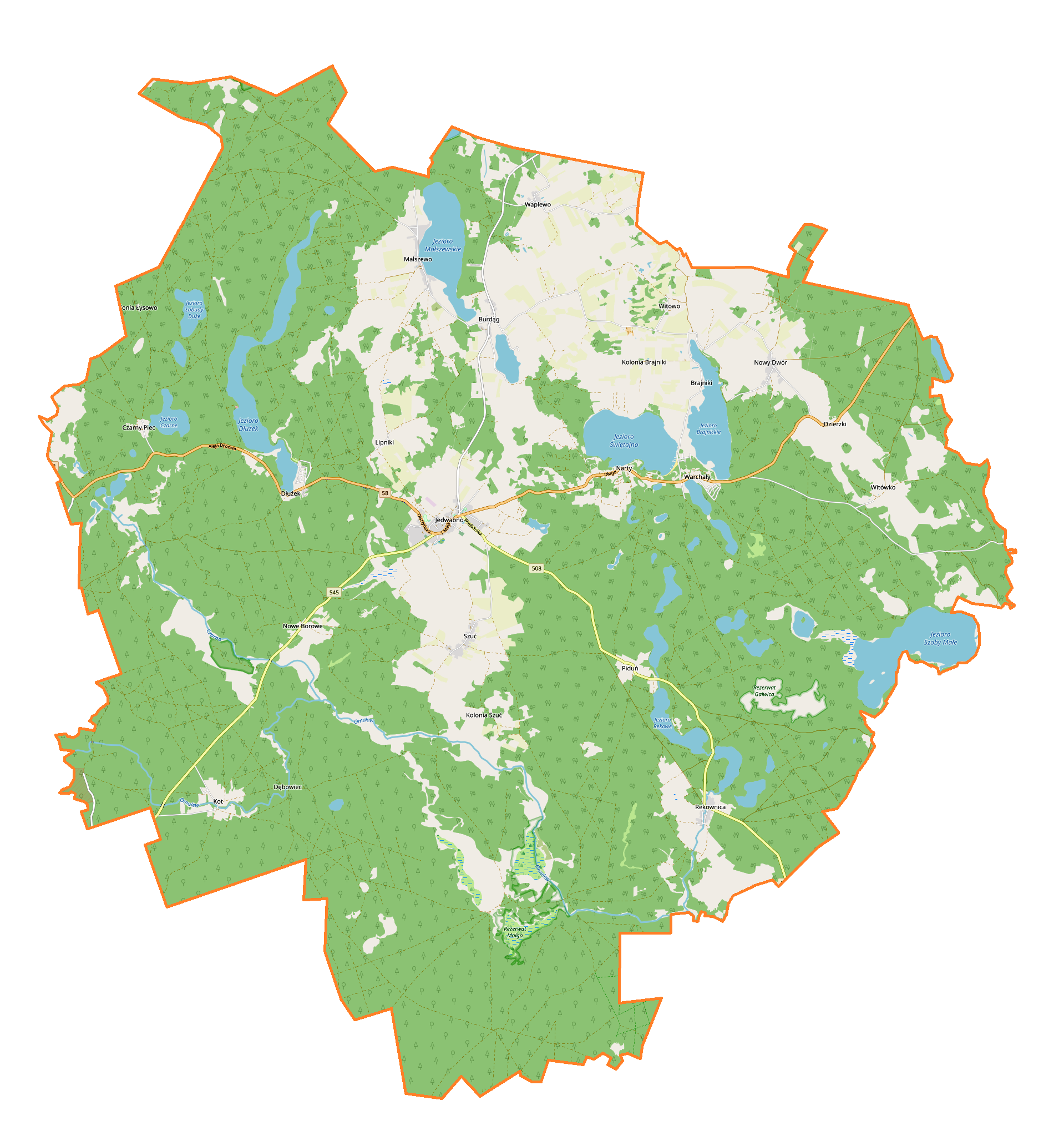 Location map